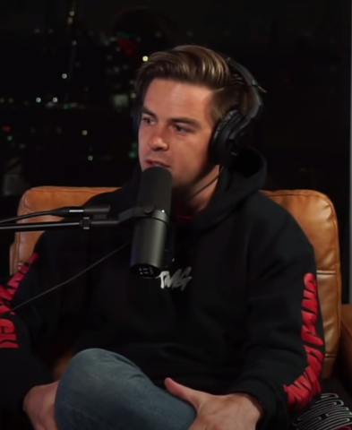 Cody Ko in May 2019